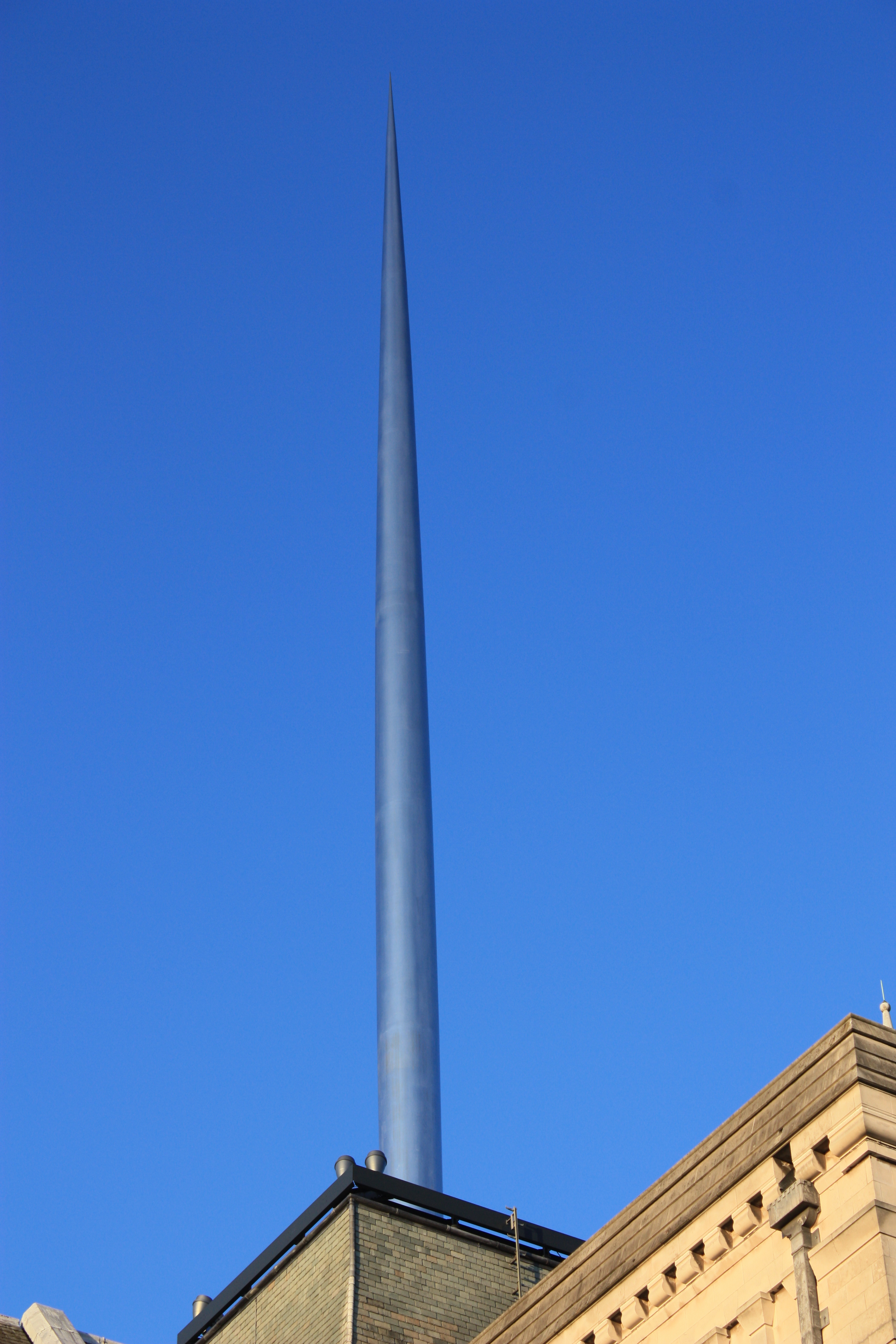 St Anne's Cathedral, Donegall Street, Belfast, Northern Ireland, December 2009